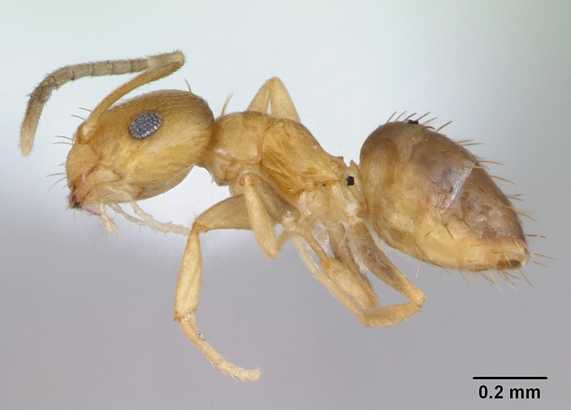 Profile view of ant Brachymyrmex aphidicola specimen casent0173474.